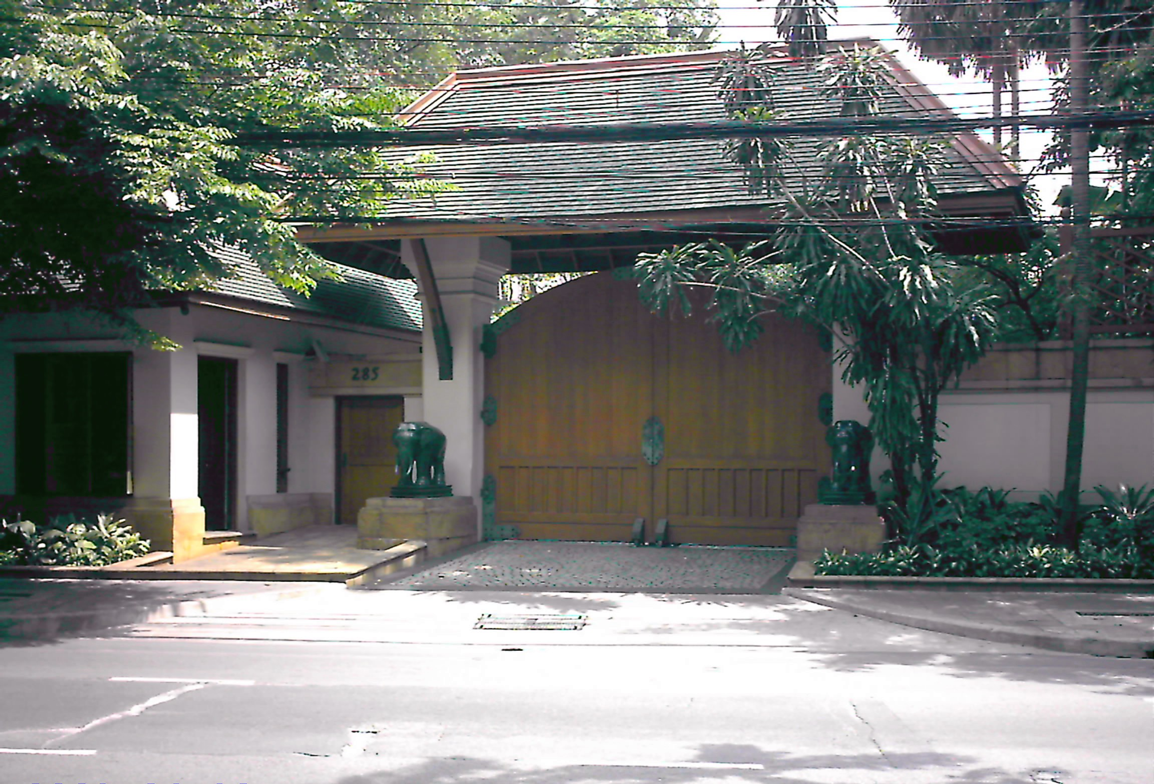 285 Suriwong Road, Bangkok, Thailand 中文（香港）: 泰國，曼谷，挽叻縣，素理翁路 285號。